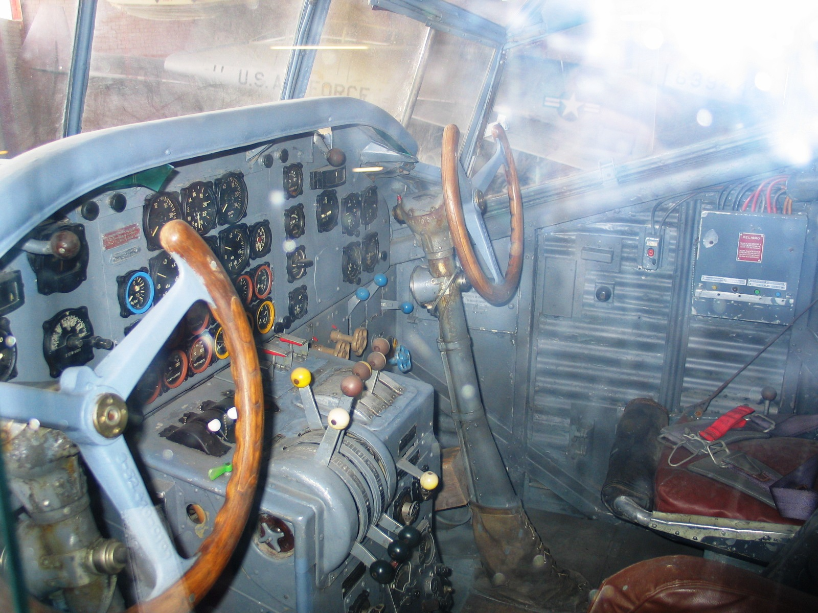 cockpit Junkers Ju-52/3m